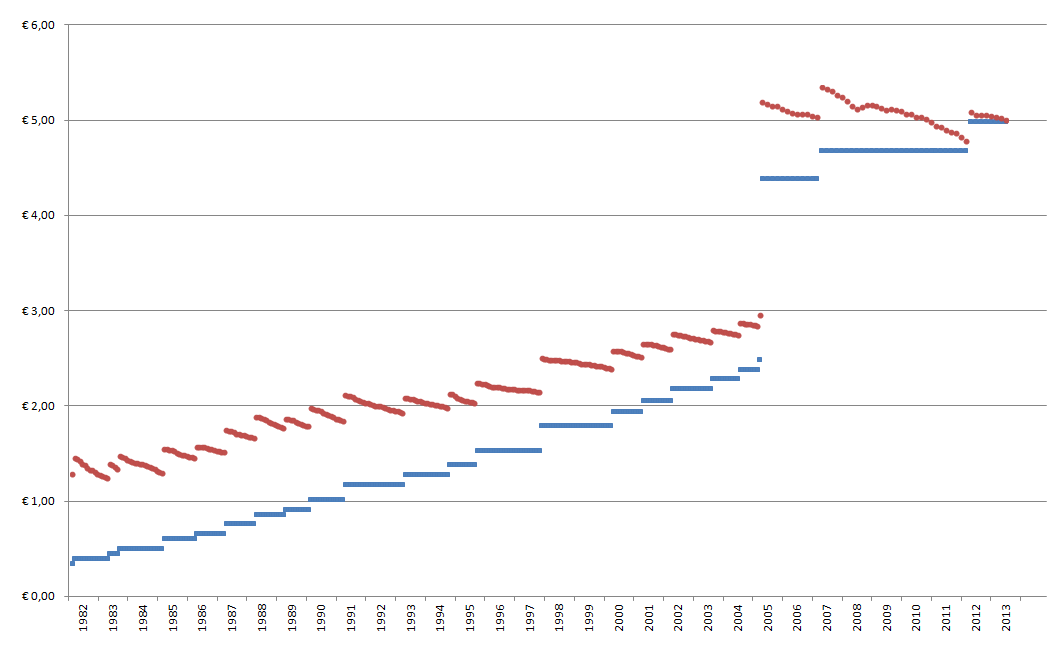 "Martin Mystère" cover prices adjusted for inflation (August 2013)